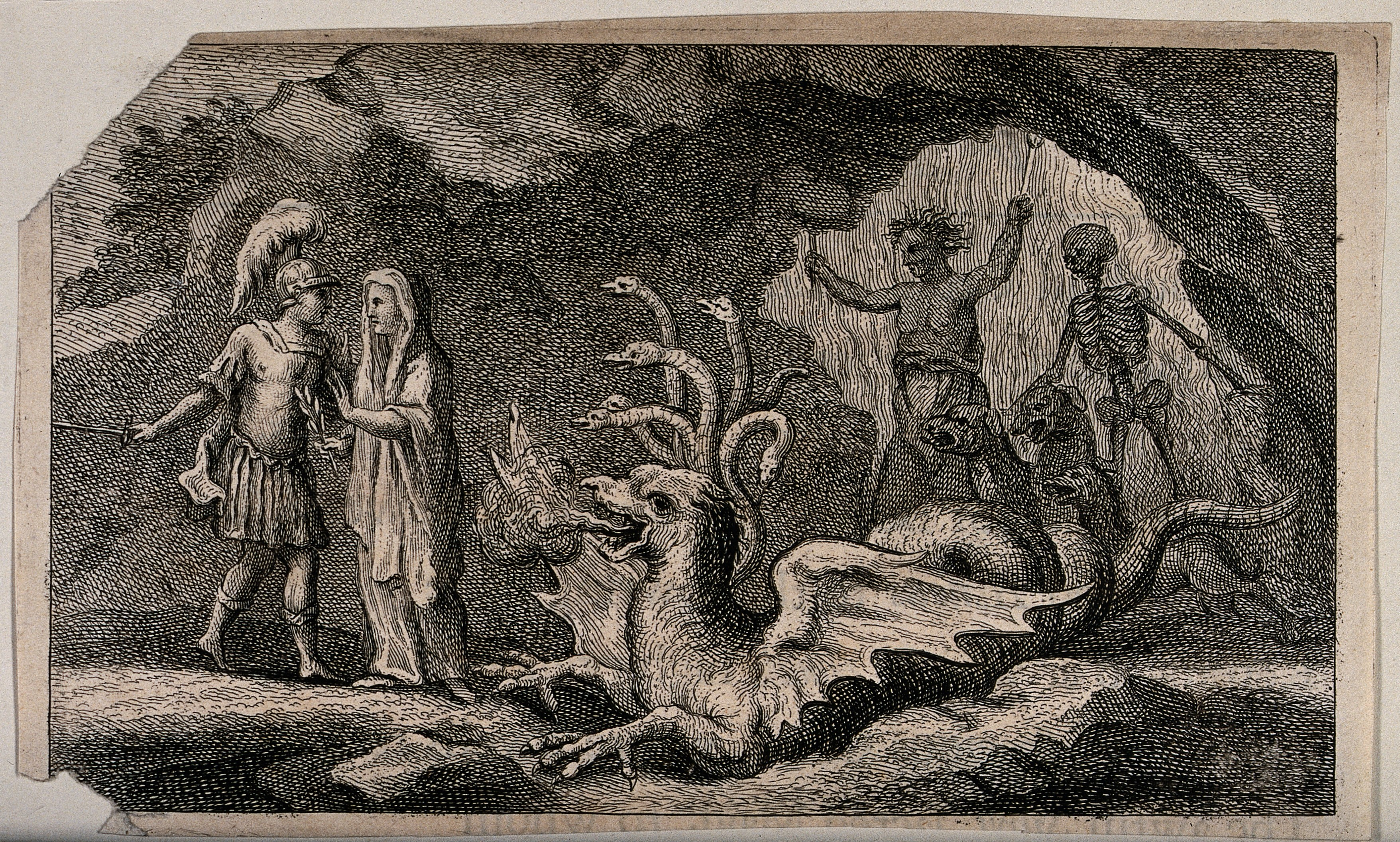 Scene from Virgil's Aeneid: the Cumaean Sibyl leads Aeneas through the underworld to the Golden Bough enabling Aeneas to cross the river Styx. Etching. Iconographic Collections